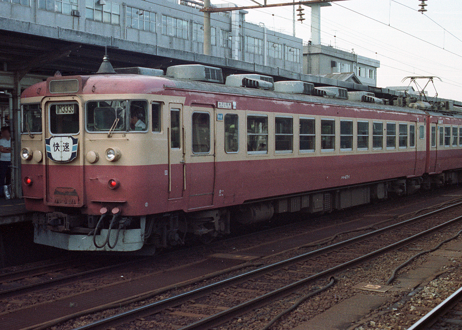 JNR 4712 series EMU car KuMoHa 471-1 at Fukui Station